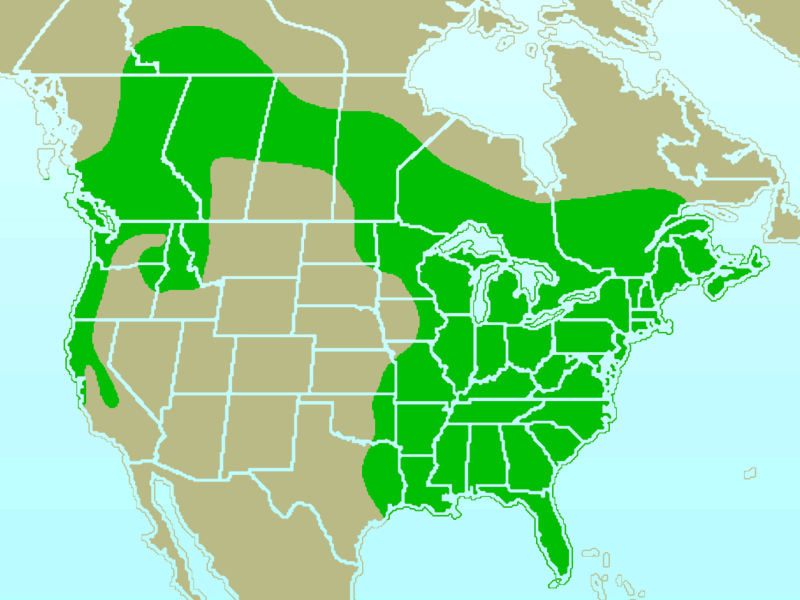 Approximate range/distribution map of the Pileated Woodpecker (Dryocopus pileatus). In keeping with WikiProject: Birds guidelines, yellow indicates the summer-only range, blue indicates the winter-only range, and green indicates the year-round range of the species.